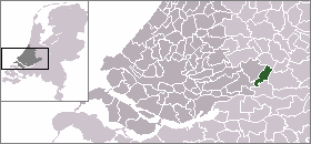 Location of Leerdam